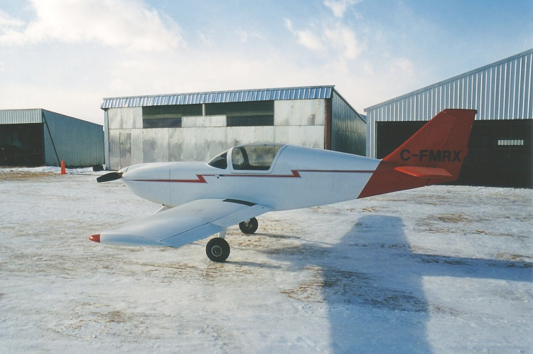 I took this photo of a Glasair Aviation SH-2F at Indus, Alberta in 1998.